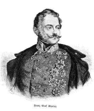 Portrait of Feldmarshall Ferencz Gyulai